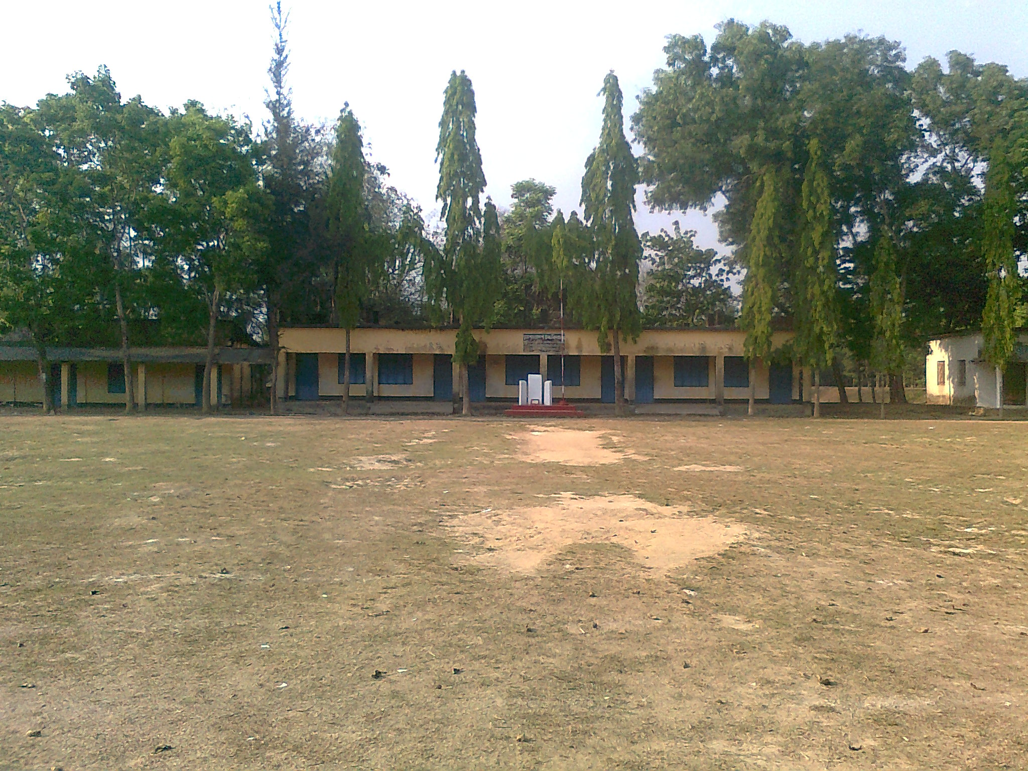 Bhujpur Model High School